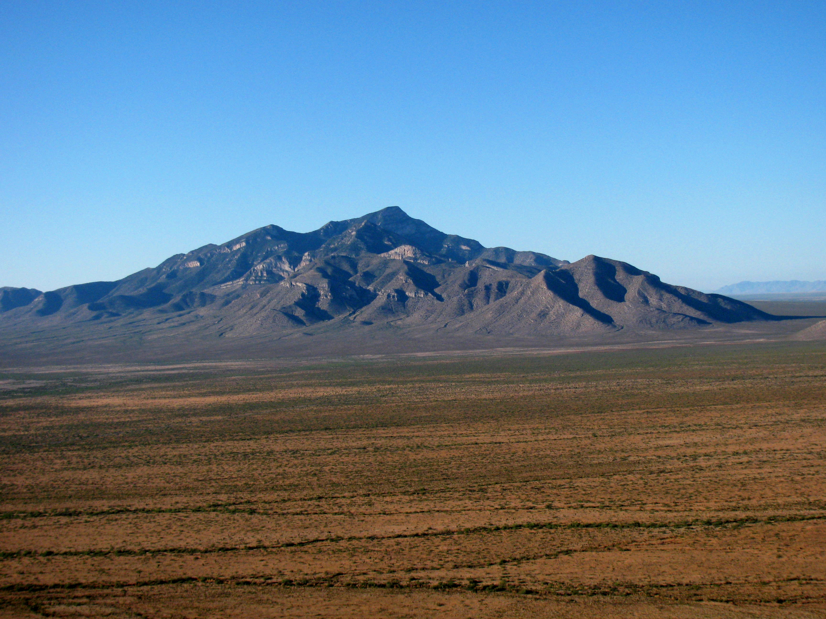 A low level aerial view of the Big Hatchet Mountains from the northeast, Hachita Valley, southwest & south of Hachita, New Mexico.